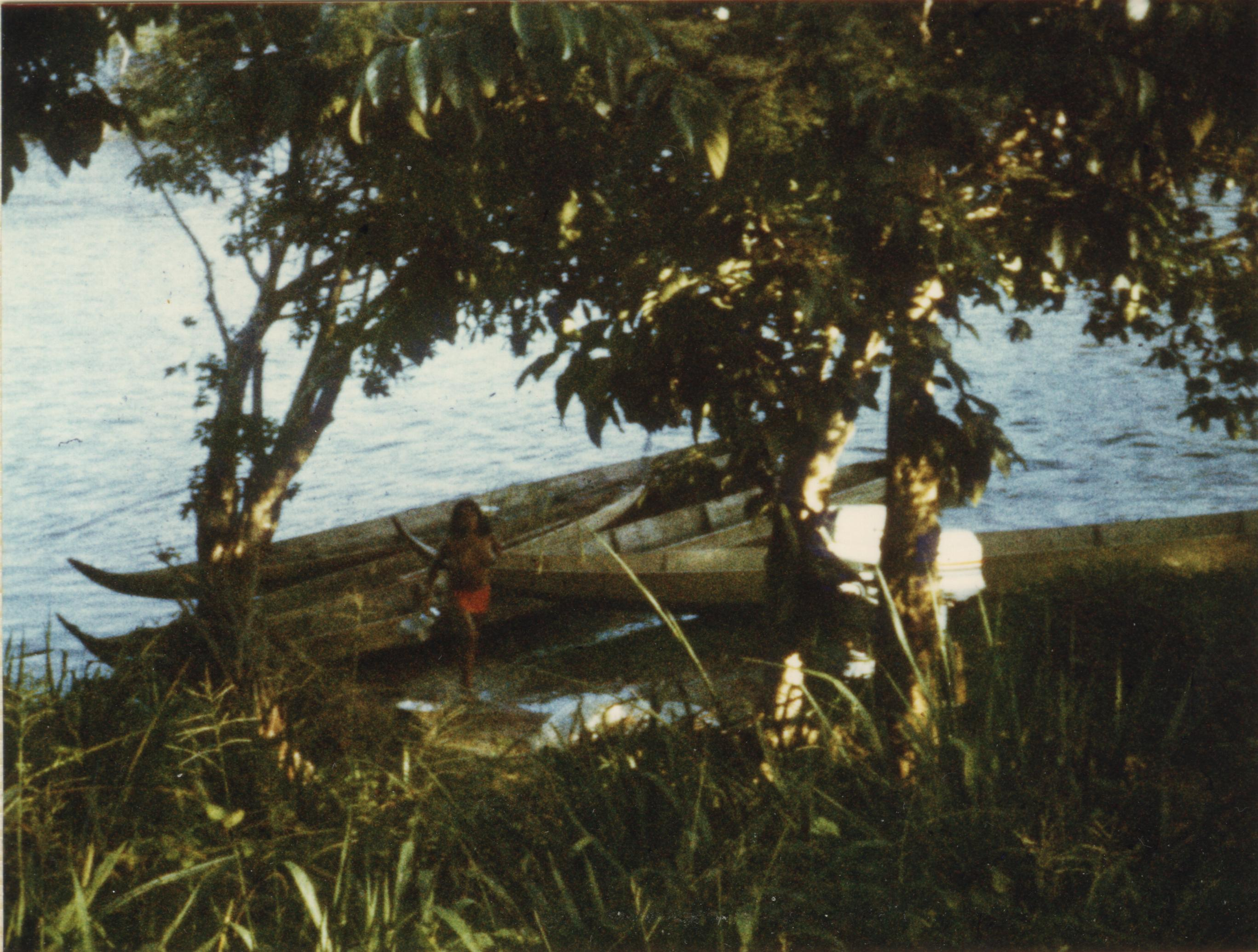 Photo taken in 1979. Daily life in the Wayana village of Antecume Pata in French Guiana.